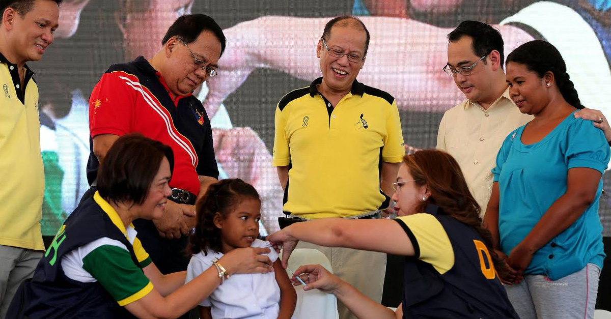 President Benigno S. Aquino III, together with Interior and Local Government Secretary Mel Senen Sarmiento; and Zambales Governor Hermogenes Ebdane, Jr., witness the ceremonial vaccination of Dengue School-Based Immunization during the launching ceremony and ceremonial distribution of the Tamang Serbisyo Para sa Kalusugan ng Pamilya (TSeKaP) Medical Equipment Package at the People Park in Poblacion, Iba, Zambales on Tuesday (April 05). Also in photo are Health Secretary Janette Garin and Zambales Governor Hermogenes Ebdane, Jr.